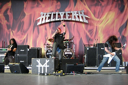 The hard rock supergroup Hellyeah playing as part of the 2007 Family Values Tour